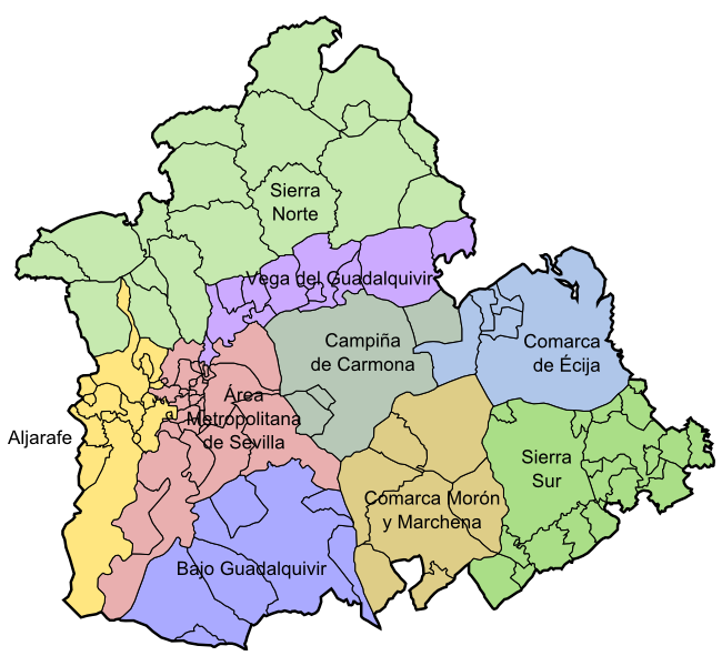 Map of province of Sevilla, divided on regions (comarcas)